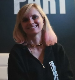 Halley Gross at a press event for The Last of Us Part II during "Outbreak Day" 2019.